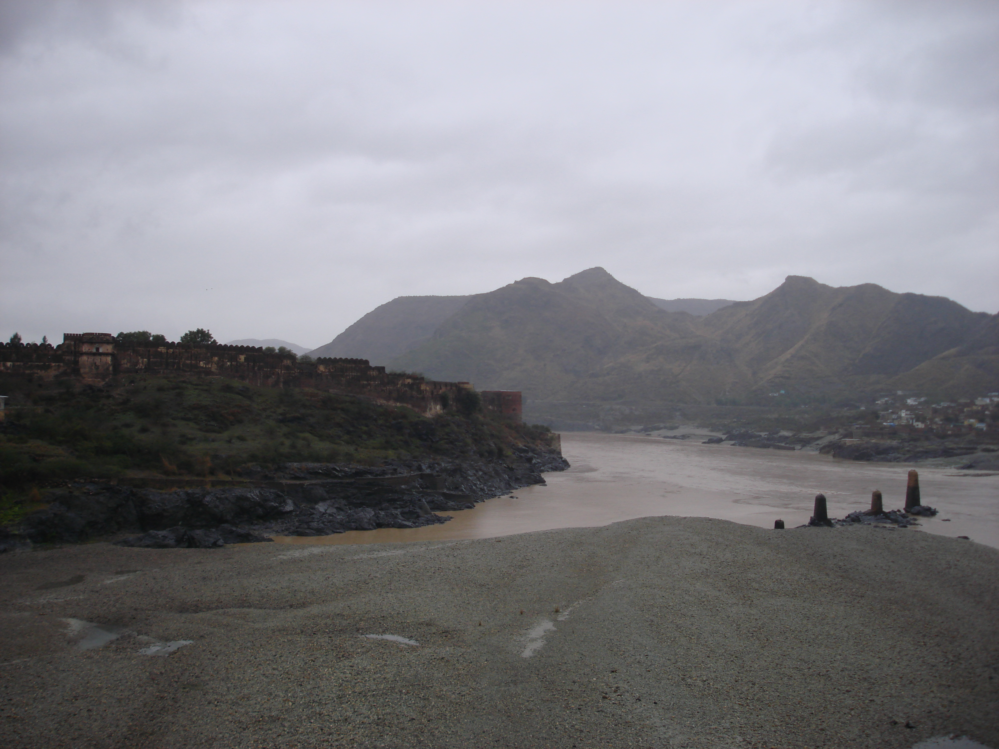 View of Attock Fort, Pakistan